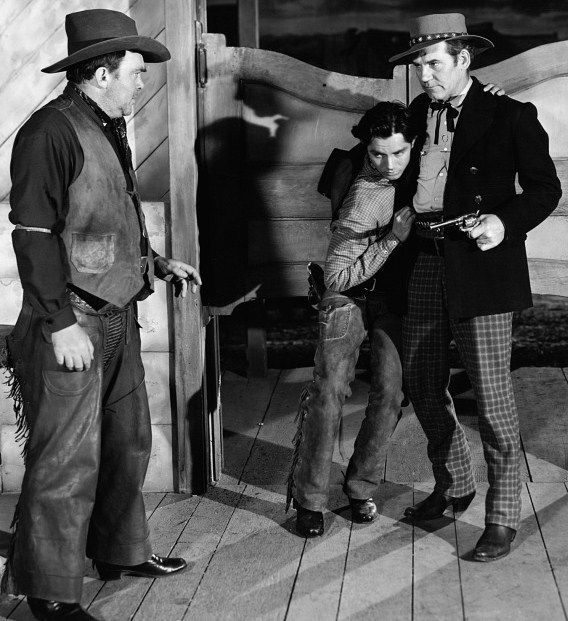 Left to right: Thomas Mitchell, Jack Buetel, and Walter Huston in The Outlaw (1943) - cropped screenshot